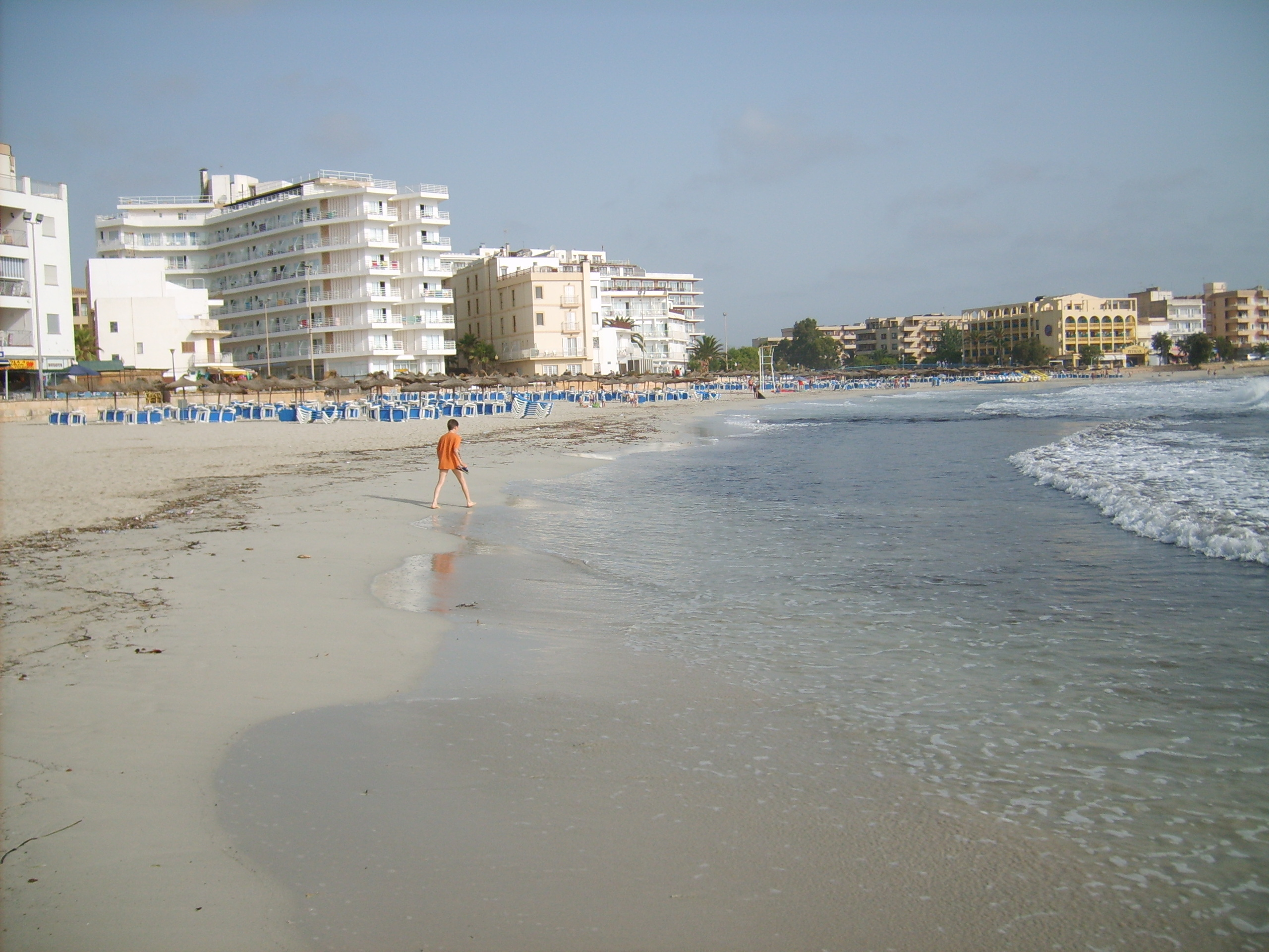 Der Strand Cala Moreya in S´illot auf Mallorca